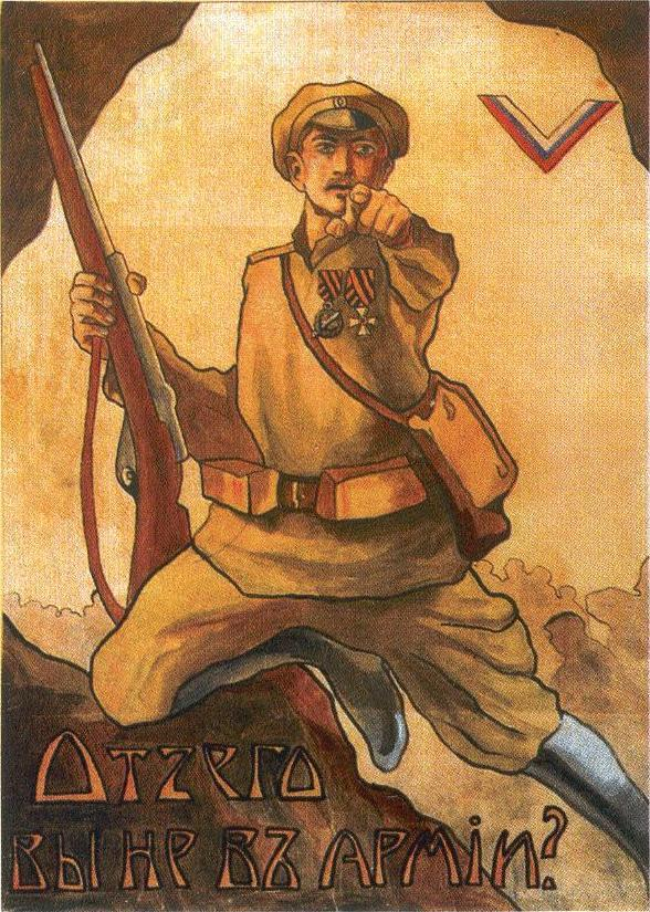 "Why aren't you in the army?" Volunteer Army recruitment poster during the Russian Civil War. The Volunteer Army existed from 1918 till 1920. Anton Denikin was the commander of the 1st Division of this army.